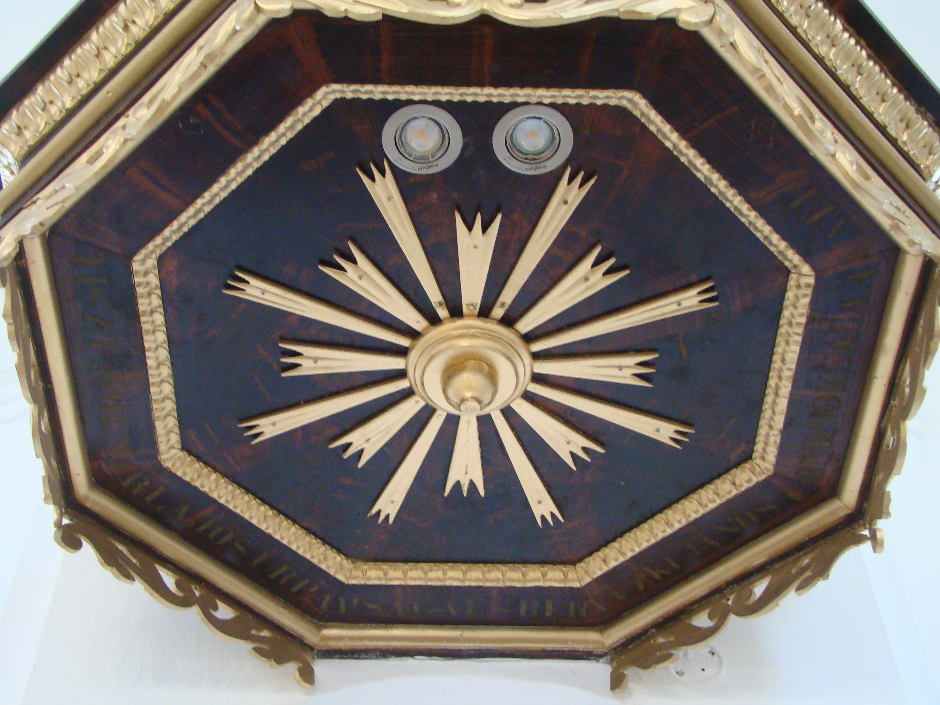 Reformed church in Roteni, Mureș County, Romania